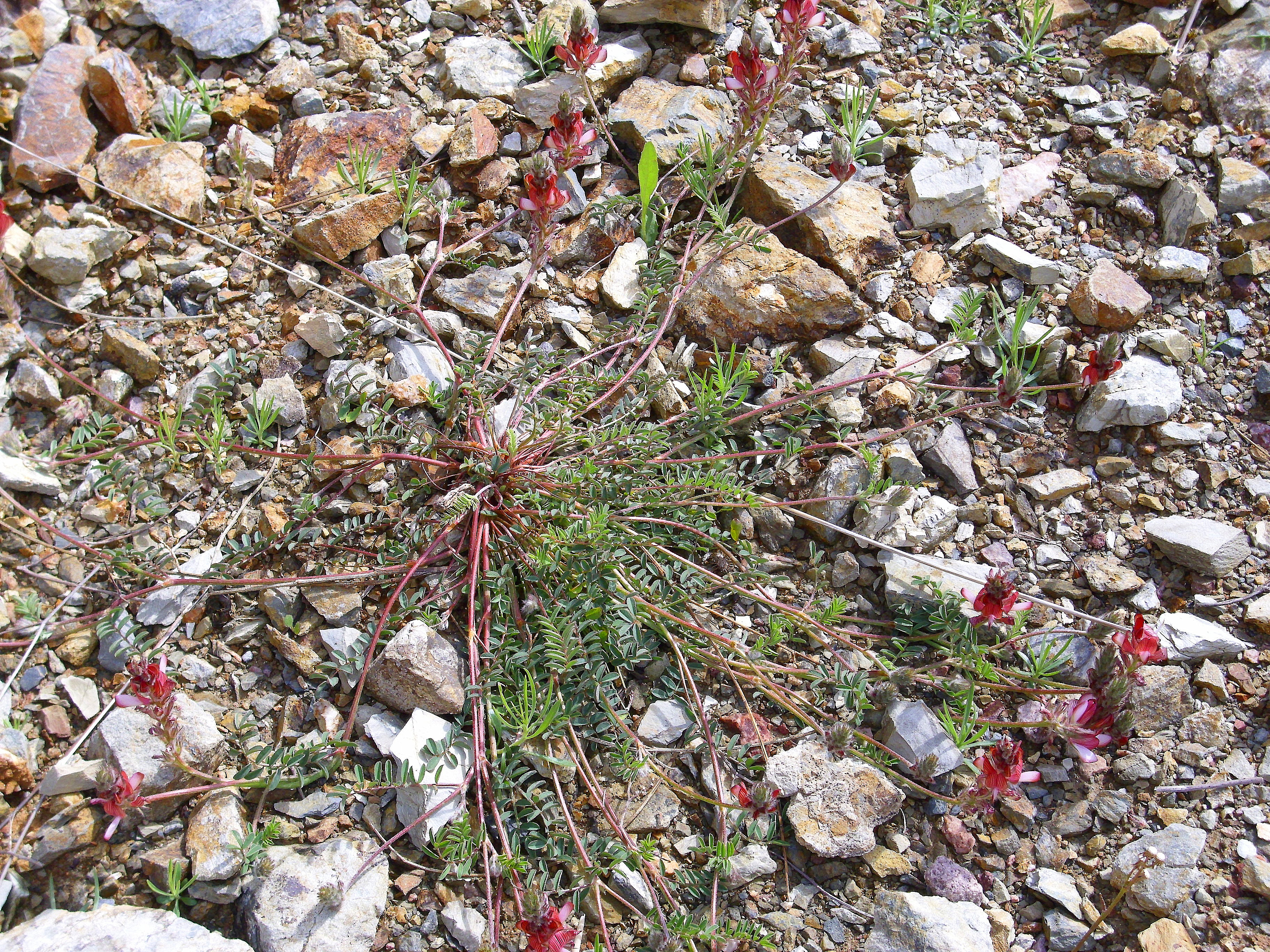 Onobrychis humilis habit, Sierra Madrona, Spain